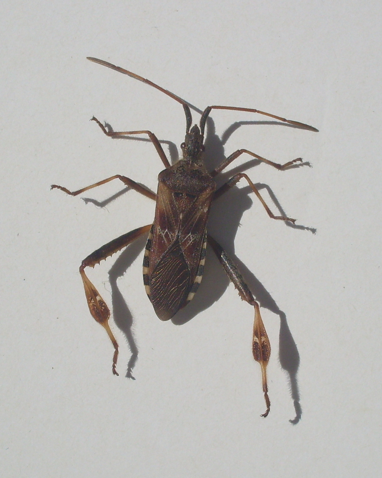 Leptoglossus occidentalis (Rhynchota: Coreidae). Specimen caught at night near small plantations of Pinus pinea in Agricultural and Environment Professional Institute Cettolini of Villacidro (Sardinia, Italy)